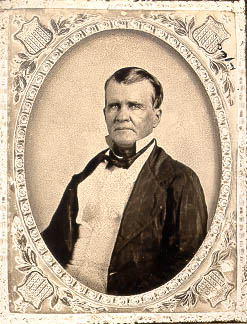 A daguerreotype of Thomas F. McKinney.